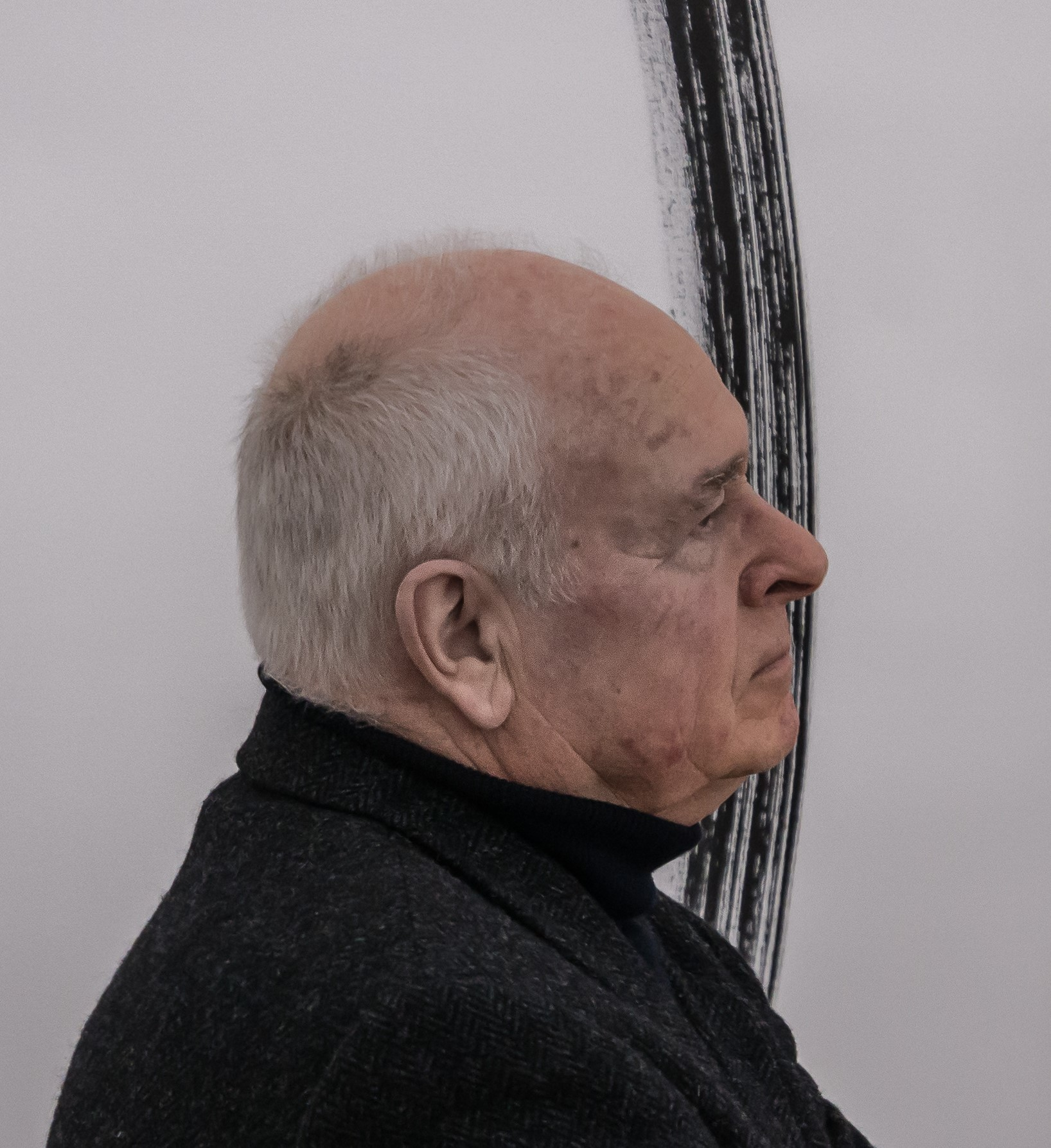 at between-Museum Art.Plus, Donaueschingen, Germany